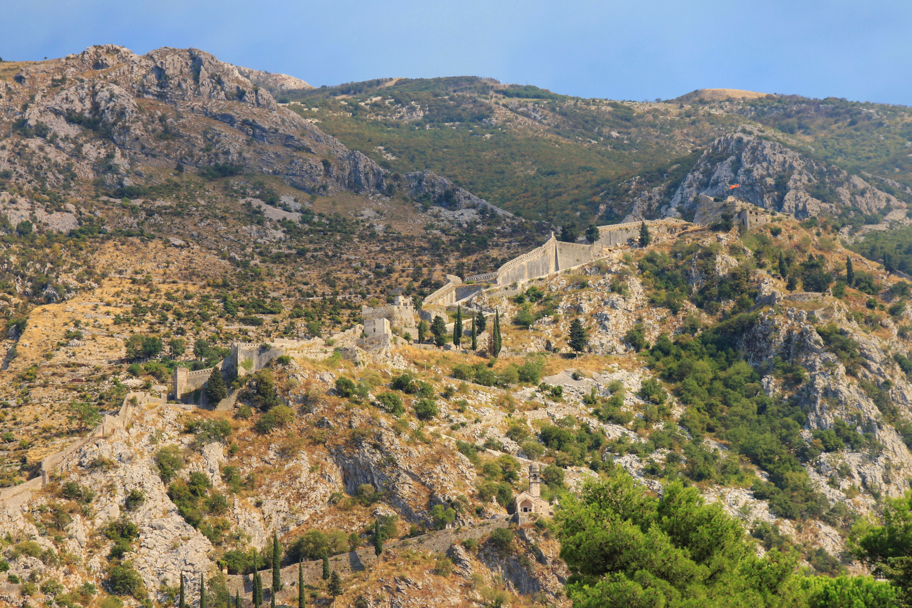 City ​​Walls. Kotor, Montenegro.